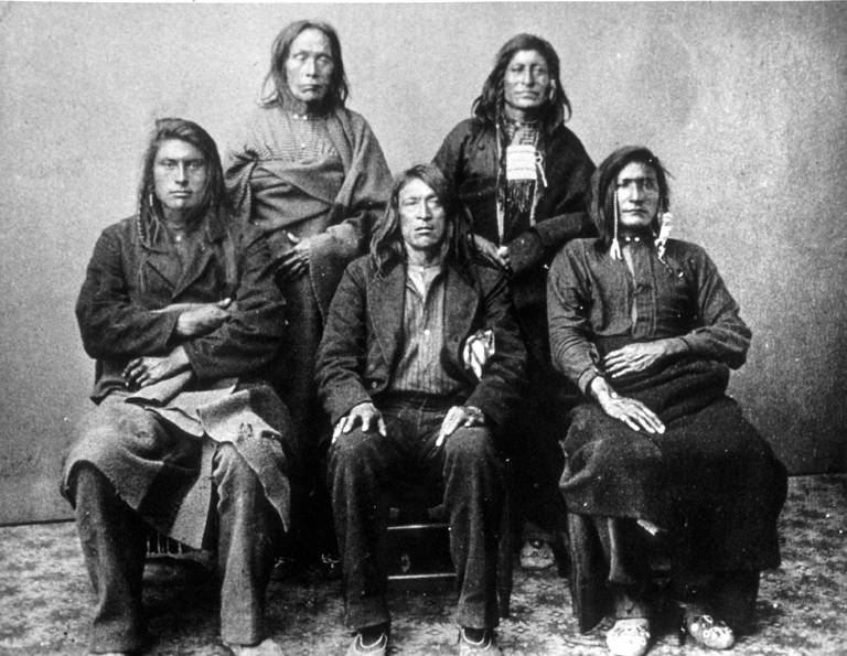 Nez Perce men, posed before transport to the Indian Territories, probably taken in Montana, 1877.